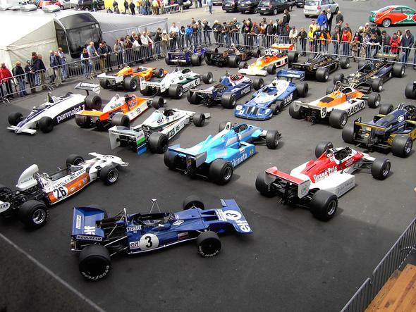 The picture shows the parc fermé of the Thoroughbred Grand Prix Championship (the official FIA historic formula one) at the Nürburgring. The series started at the weekend 23rd to 25th of june 1995 at the DAMC 05 "Oldtimer Festival um den "Jan-Wellem-Pokal".